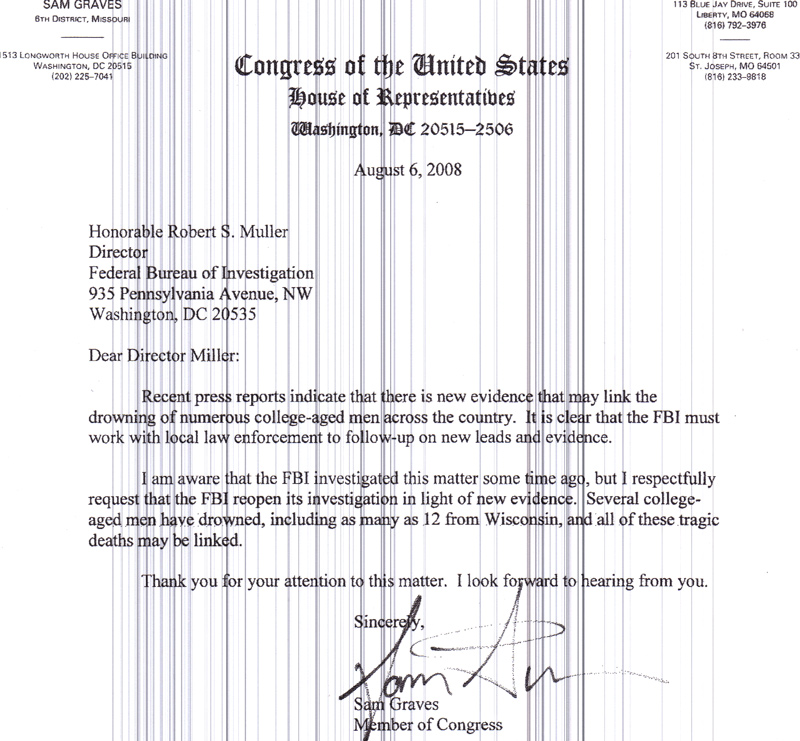 Letter from Congressman Sam Graves to the Honorable Robert Muller concerning new evidence and a request that FBI reopen the case (Smiley Face Killings).